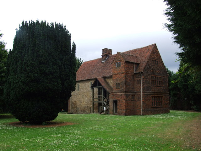 Temple Manor, Strood A 13th Century residence of the Knights Templar in the heart of industrial Strood.